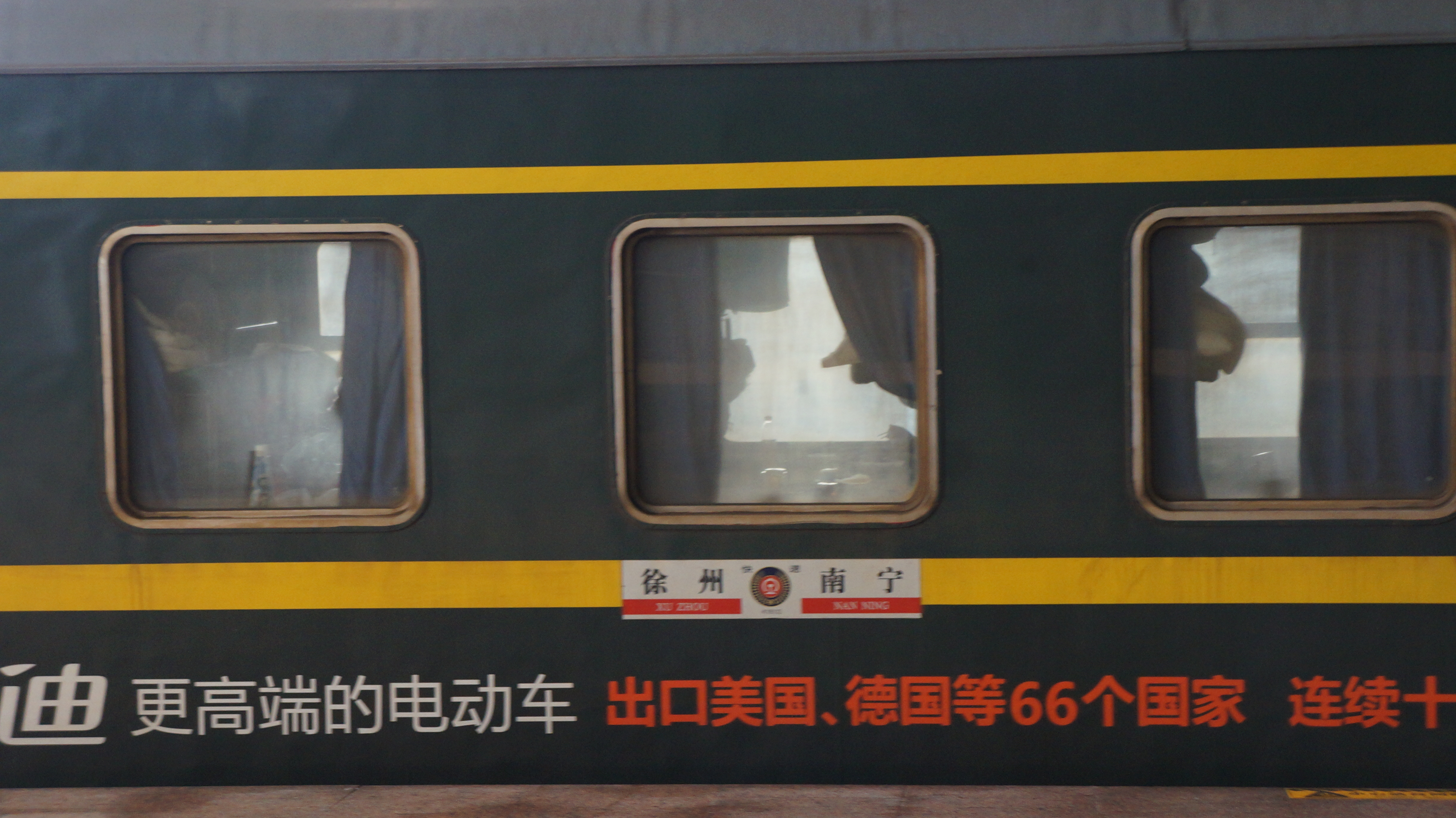 201601 K162 at Wuhu Station